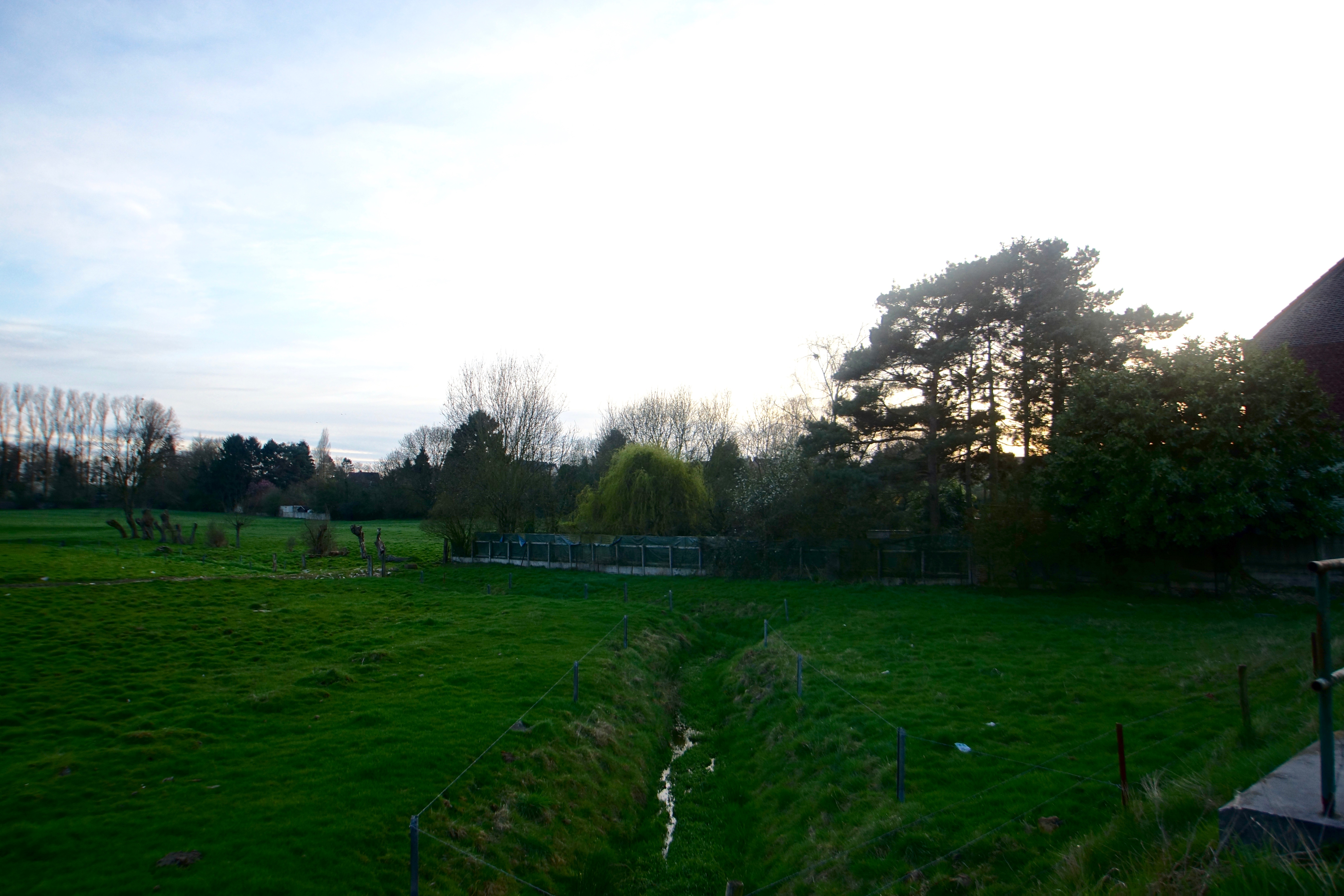 Bois-d'Haine, Belgium: The River Rau de Balasse at the Rue Louise Lateau